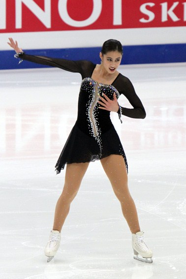 Crystal Kiang at the 2011 Four Continents Championships.